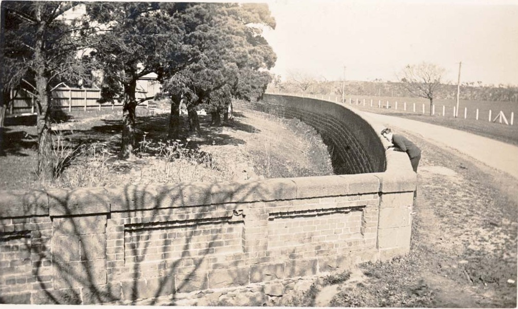 An example of the Ha ha walls used at Yarra Bend Asylum